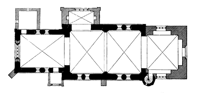 Footprint of the Church in Proseken, Mecklenburg, Germany